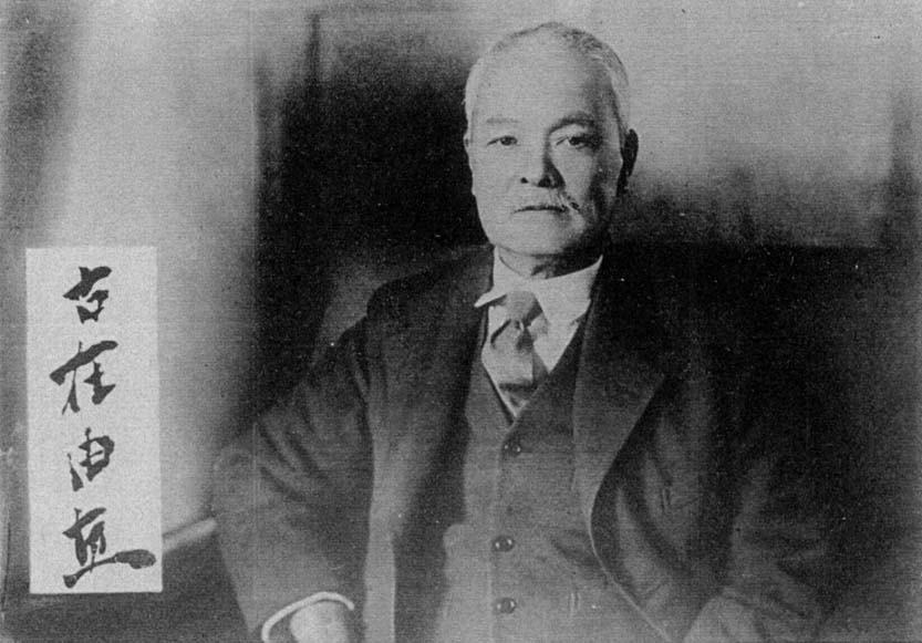 Later years of Dr. Kozai.